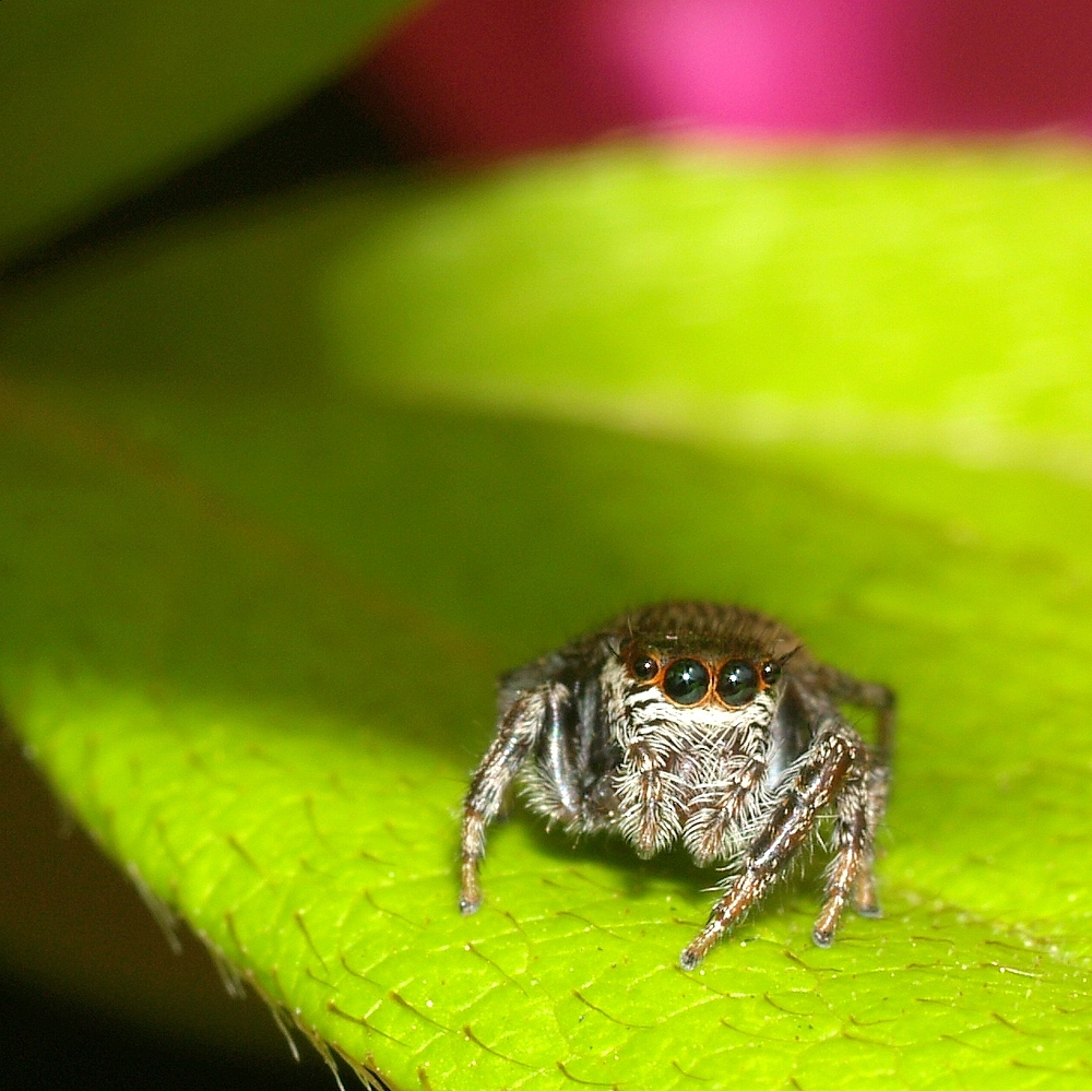 I love jumping spiders! It is so pretty! -- Carl Zeiss Makro-Planar T* 60mm F2.8 with E-300 Trimed